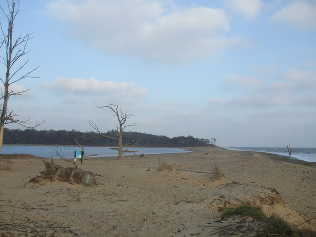 Benacre beach and broad The almost deserted beach.